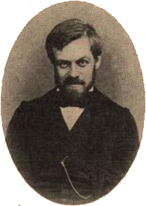 The Norwegian historian Ludvig Ludvigsen Daae.